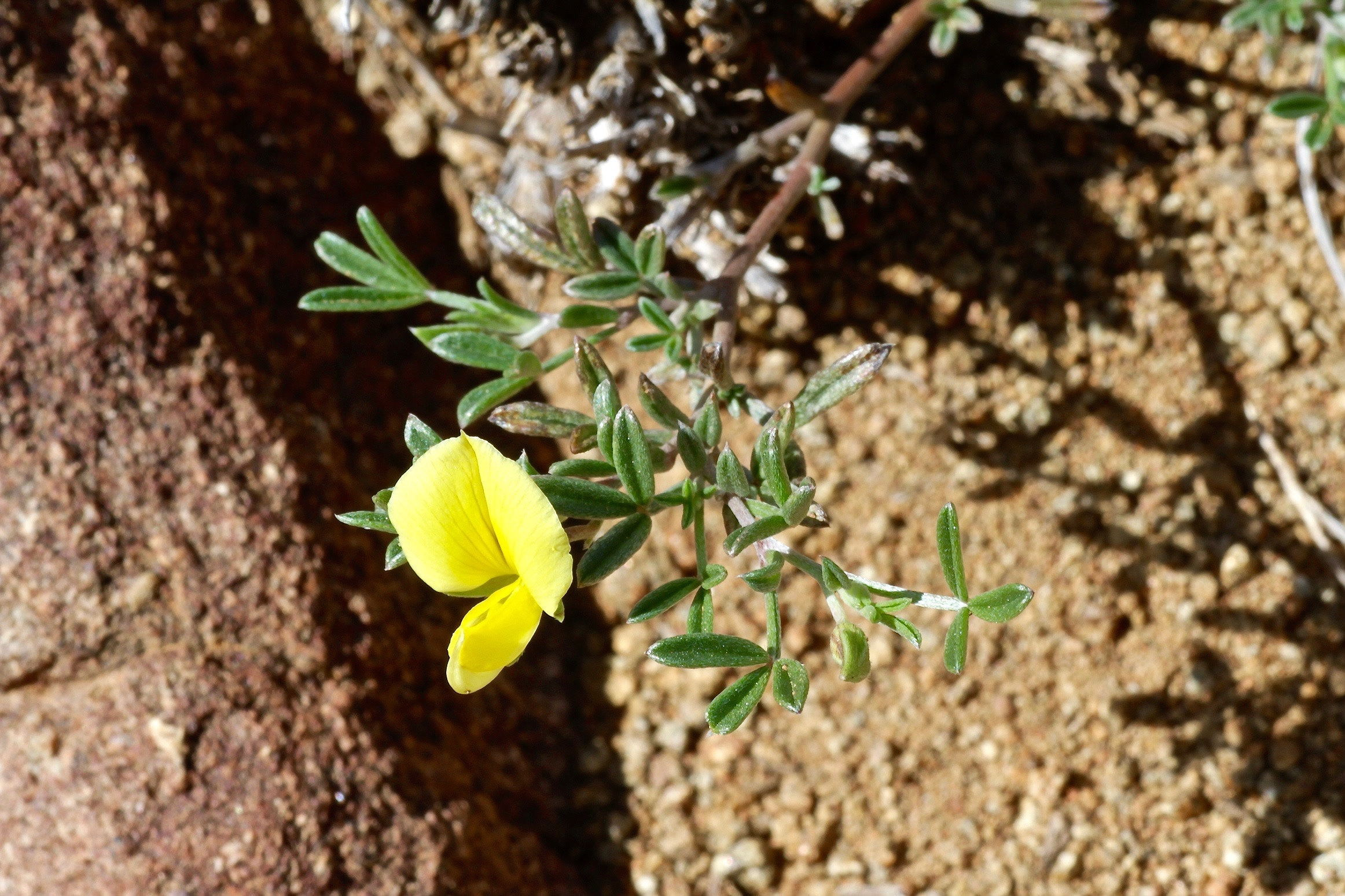 South Africa, Karoo National Park.